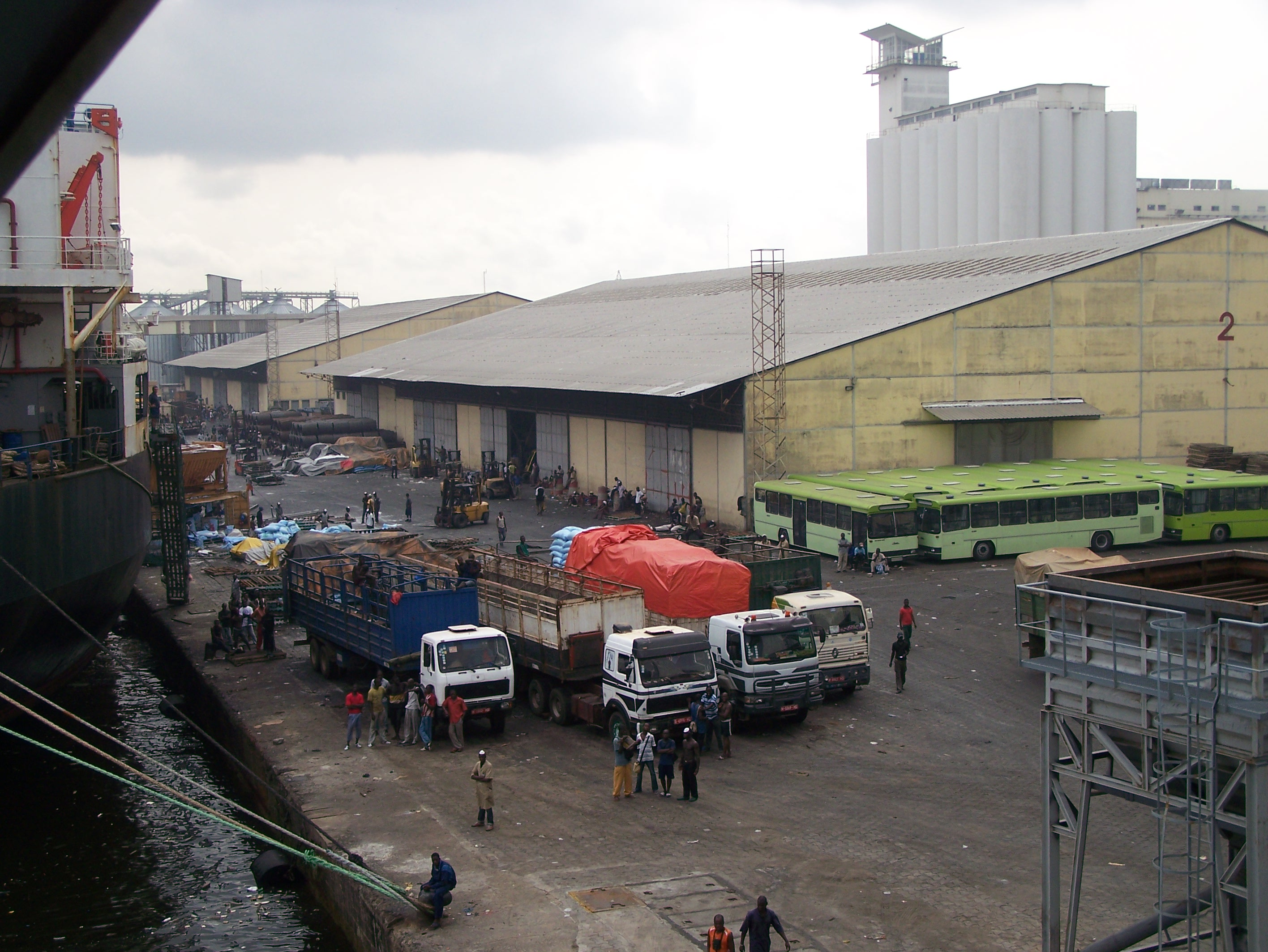 Warehouses and transport trucks at the port of Abidjan in Cote d'Ivoire